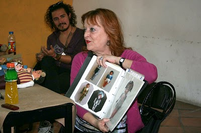 María Eugenia Chellet at a Miss Lupita project workshop at the Centro Cultural Casa Talavera of Mexico City